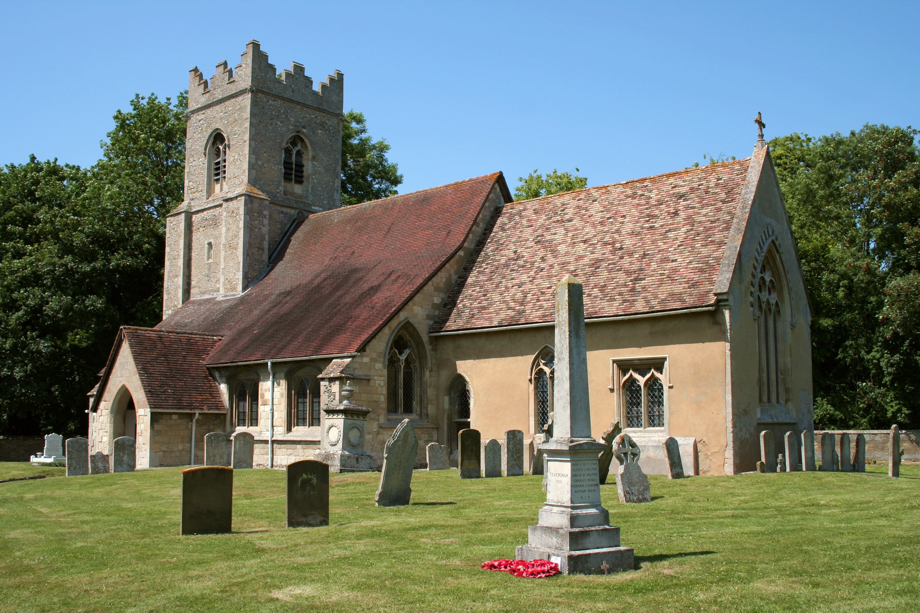 The Parish Church of All Saints in Teversham in July 2013.